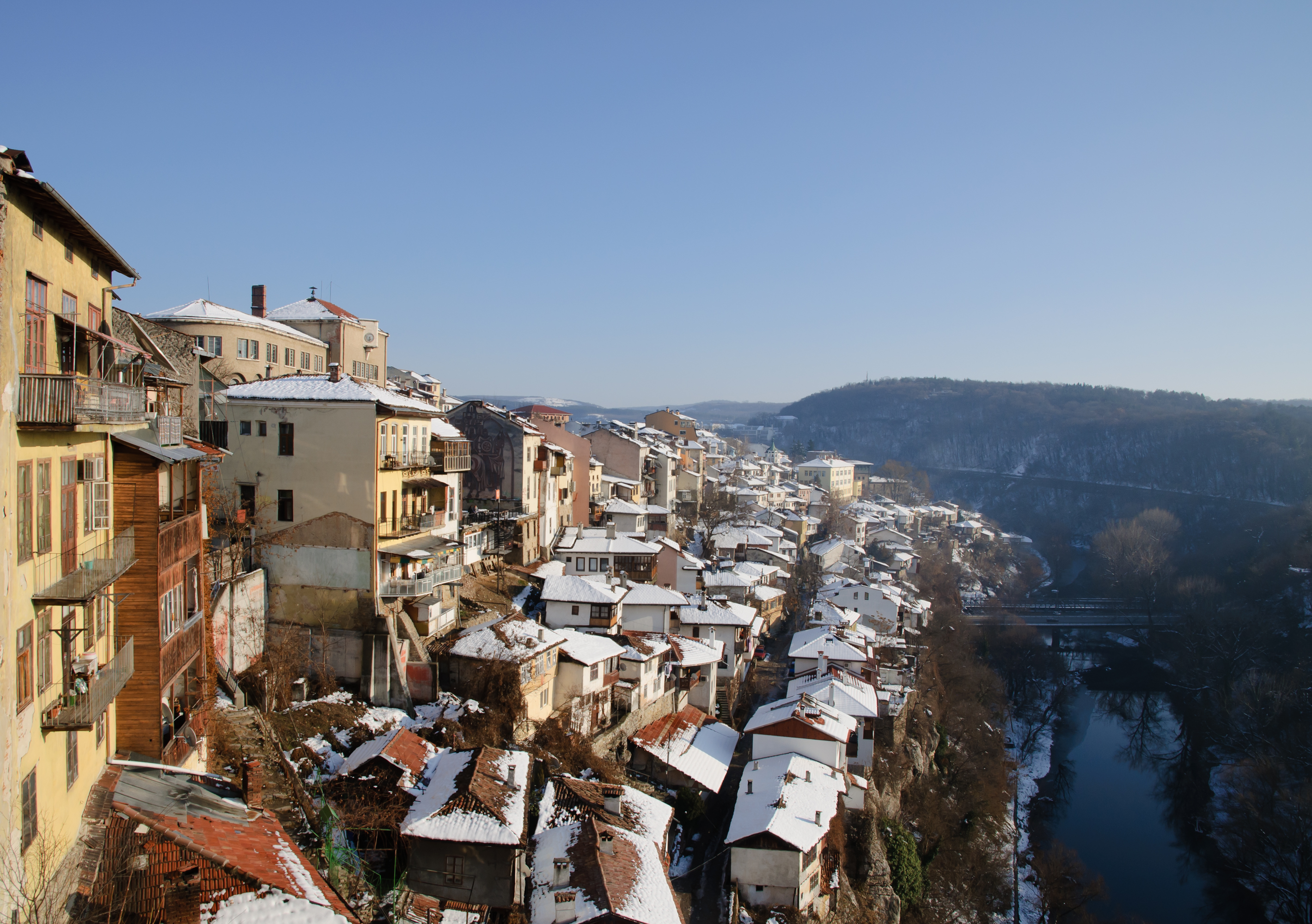 View of the Varosha quarter and Yantra river in the city of Veliko Tarnovo, Bulgaria.